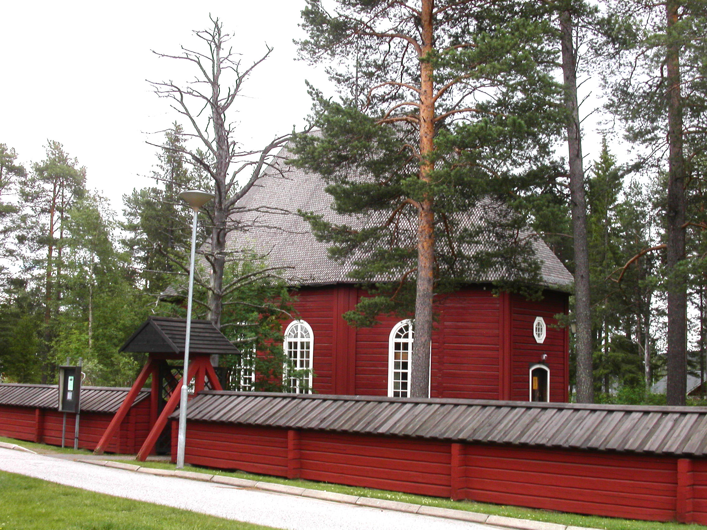 Jokkmokk old church, exterior. Church originally from the 18th century but burned down. Rebuilt in the 1970's.